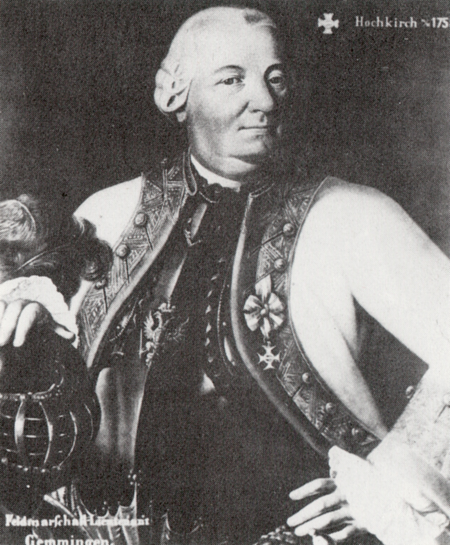 Portrait of Reinhard von Gemmingen-Hornberg (1710-1775)